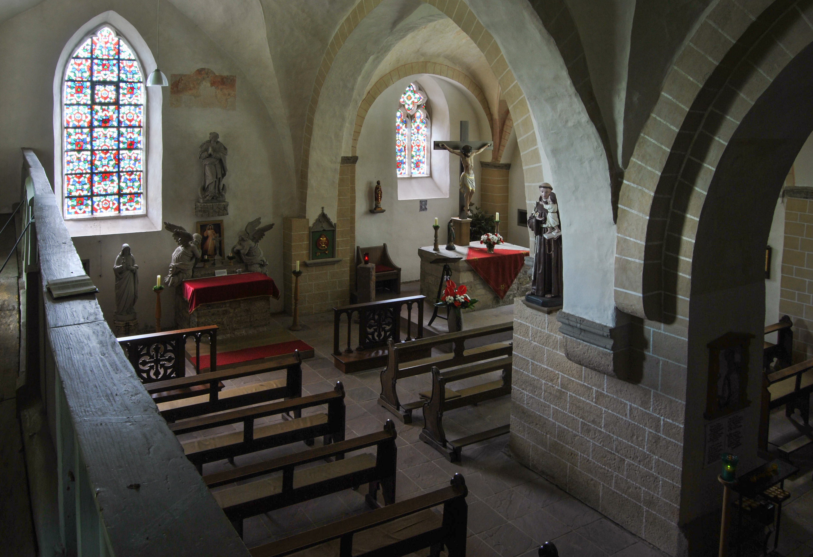 Marsberg (North Rhine-Westphalia, Germany) – district Padberg – Old Church of Saint Peter (11th cent.) – interior This image shows a heritage building in Germany, located in the North Rhine-Westphalian city Marsberg (no. 9). This photograph was taken with a Nikon D3000